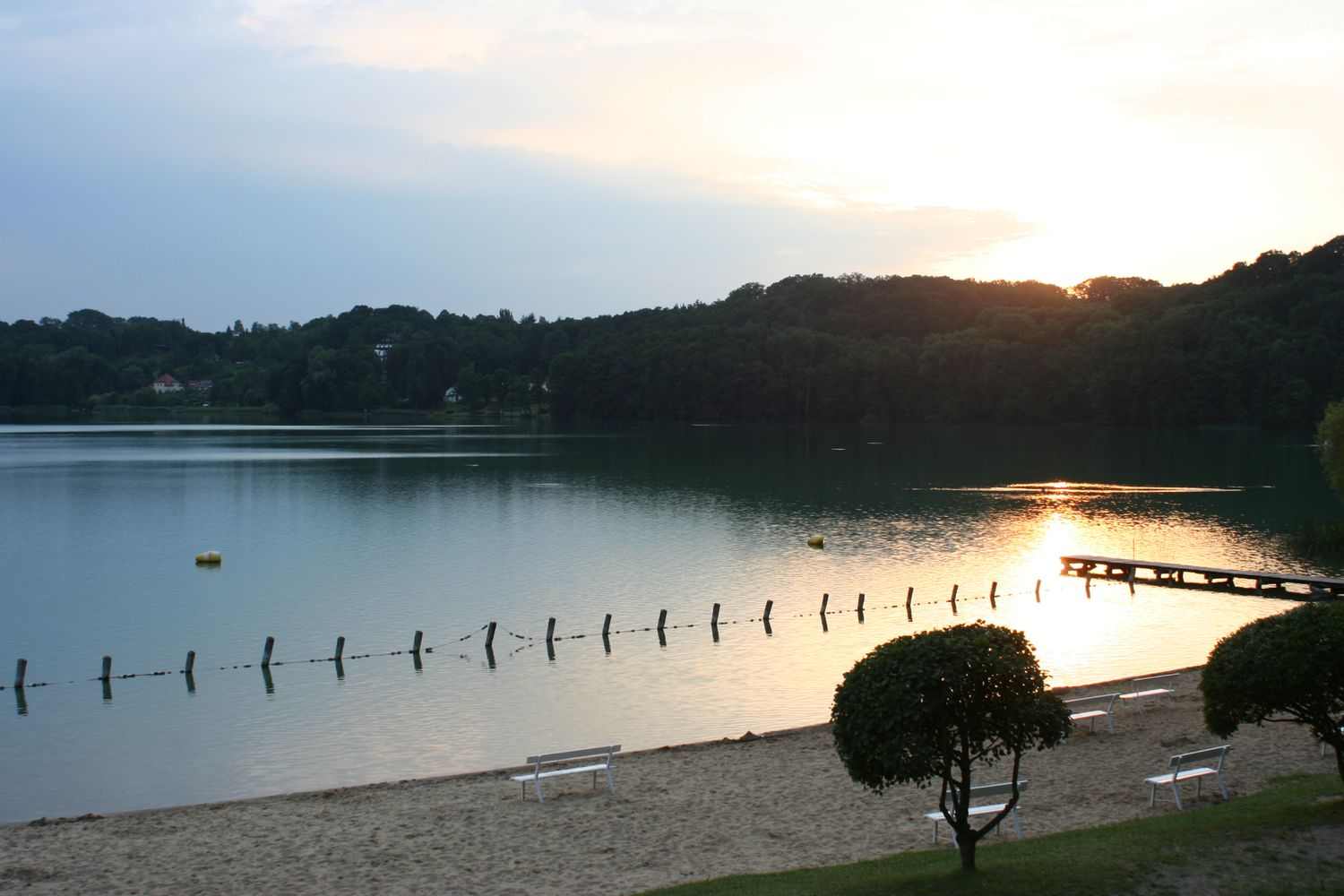 Lake Schermützelsee, Buckow (Märkische Schweiz), Brandenburg, Germany.